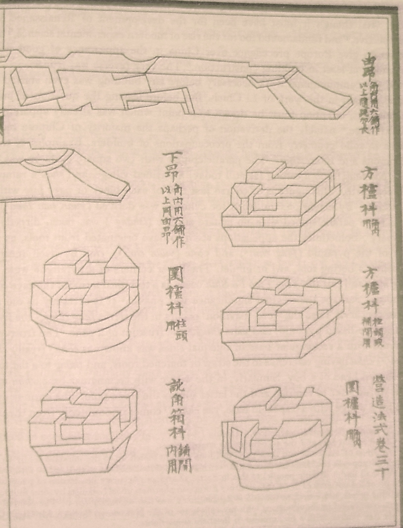 File:Yingzao_Fashi_5.JPG with smear removed by mixing channels: Red: 0.2 green + blue Green: 0.4 green + 0.65 blue Blue: blue as red is badly smeared, green is slightly smeared but has least noise, and blue is not smeared but has most noise.